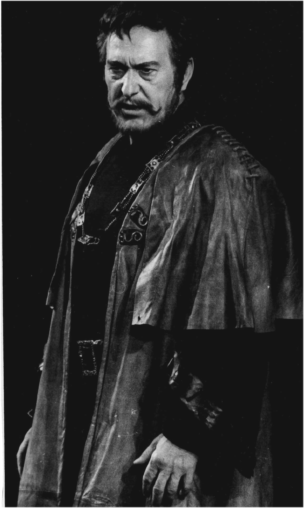 Ferenc Bessenyei (1919–2004) Hungarian actor in Cluj-Napoca (Romania) in 1971